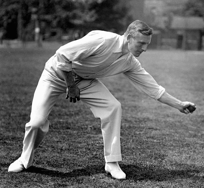 Arthur Owen Jones, Nottinghamshire and England, circa 1905.